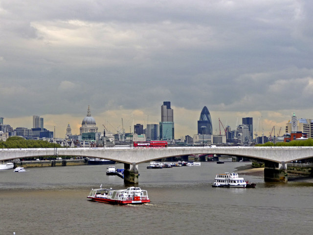 Waterloo Bridge, London Looking down river from the Golden Jubilee Bridge to the east of Charing Cross Bridge, beyond Waterloo Bridge we have the London skyline, St Paul's, Tower 42 (formerly NatWest Tower) and the Gherkin, plus the OXO tower to the right.